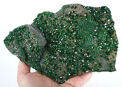 Uvarovite Locality: Saranovskii Mine (Saranovskoe), Saranovskaya (Sarany) Village, Gorozavodskii area, Permskaya Oblast', Middle Urals, Urals Region, Russia (Locality at ) Size: large cabinet, 18.3 x 13.1 x 2.0 cm UVAROVITE Garnet This large plate of the rare uvarovite garnet varietal is the largest and finest I personally know of or have seen. Since 1832 when they were found at this, the Type Locality for the species, this garnet has been the standard of excellence for a green garnet species. Named after Count Sergey Semeonovich Uvarov (1786-1855), Russian statesman and scholar, President of the Academy of St Petersburg (1818-1855) - according to MINDAT. For the collector, this is thus a historical specimen and a beauty. This plate is museum-sized, and rich in quality as well as having that size. Uvarovite crystals do not grow so large as other species of garnet, especially from this locality where most crystals are sub-mm in size and 2mm crystals are considered noteworthy. This specimen has crystals to a whopping 5.5 mm - DOZENS if not hundreds of them. Although there is some damage, it is relatively minor and lost amidst hundreds, literally, of bright and reflective pristine crystals on this plate. This specimen was in the Richard Kosnar collection since it came out of an old Russian collection in 2001. When I first saw it, my mouth dropped. I had no idea such a piece existed.